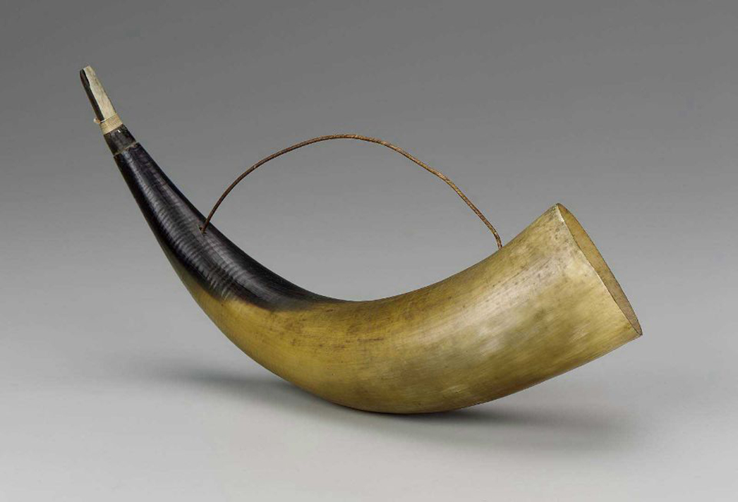 Erkencho, musical instrument of the Argentine Northwest